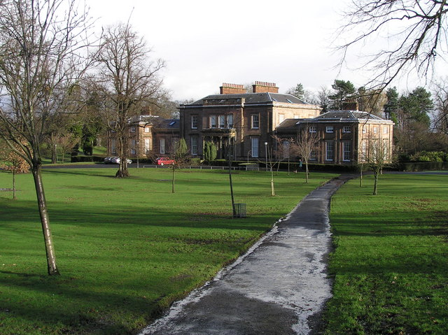 Aikenhead House, King's Park, Glasgow Aikenhead House, situated within King's Park public park, was built on the site of a much earlier 17th century mansion. The main house was built in 1806 and the wings were added in 1823. In 1986, Aikenhead House was converted to contain 14 flats.